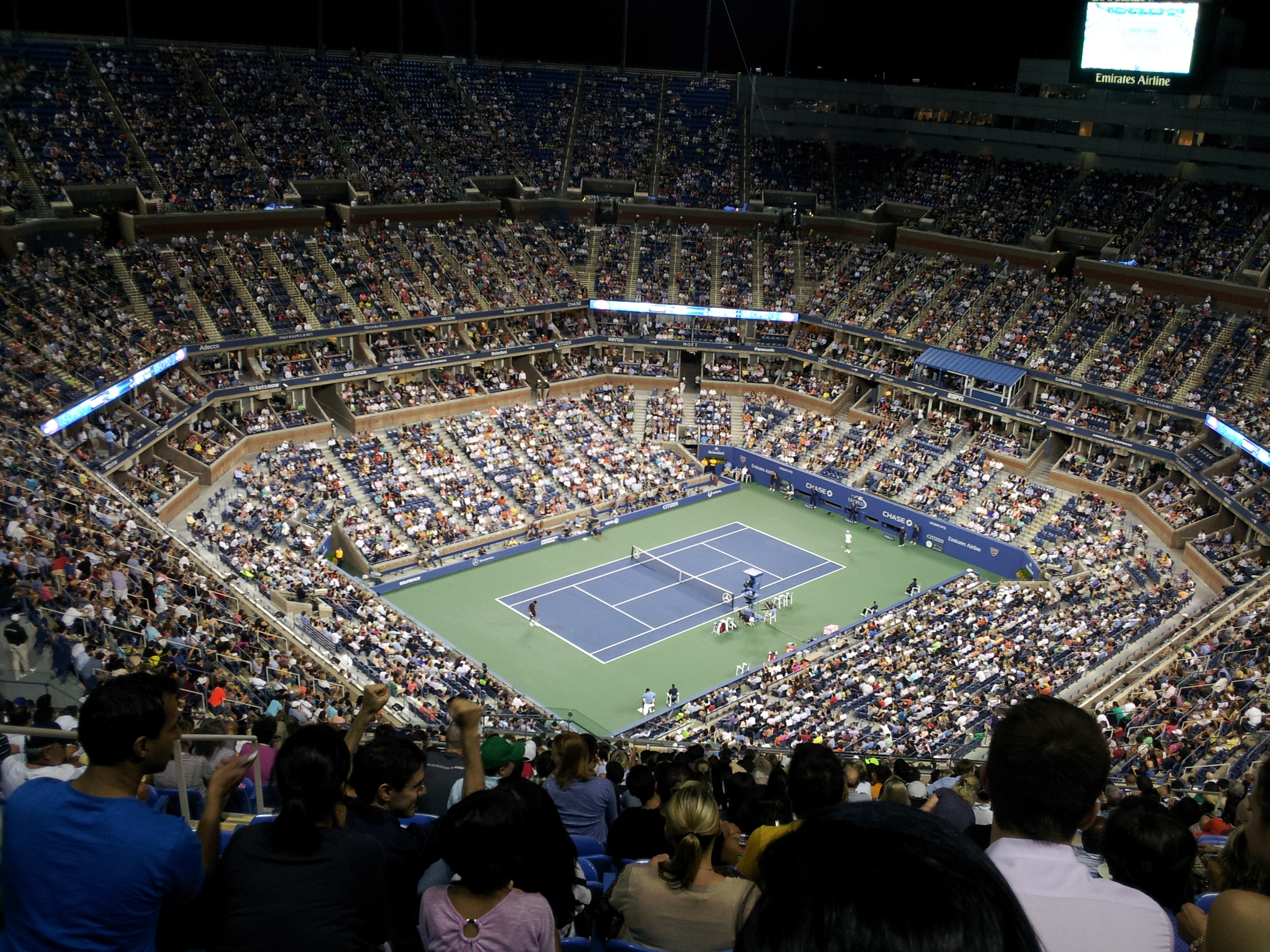 2012 US Open Novak Đ vs Paolo Lorenzi